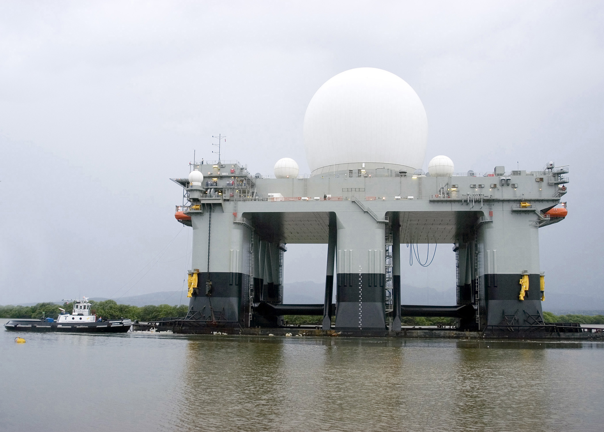 The Sea-Based X-Band Radar (SBX) departs Pearl Harbor, Hawaii, March 31, 2006, after a three-month port visit to undergo minor modifications, post-transit maintenance, and routine inspections.